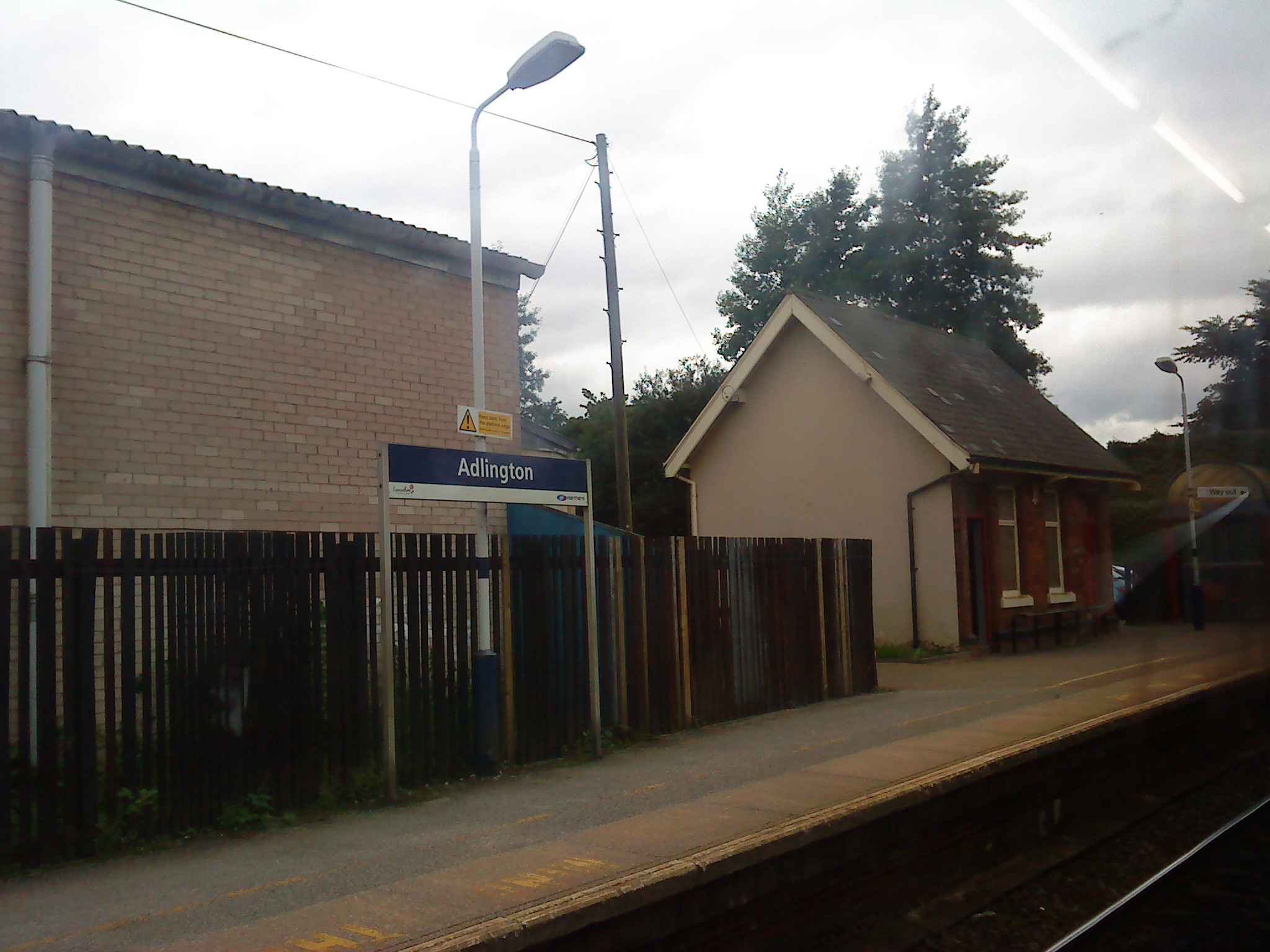 Adlington railway station in 2009